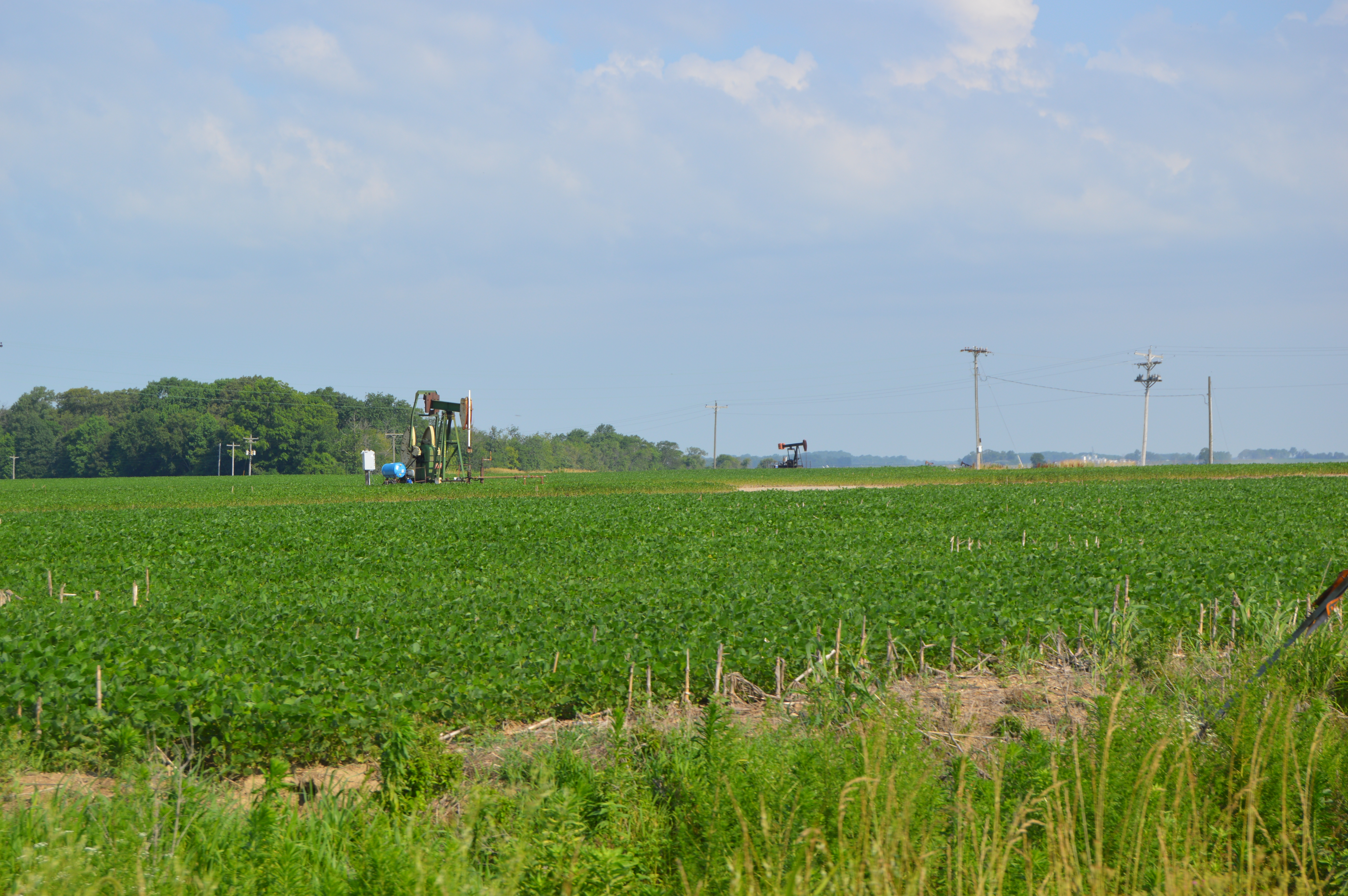 Looking northwest from Road 1775E southwest of Rising Sun in Emma Township, White County, Illinois, United States.